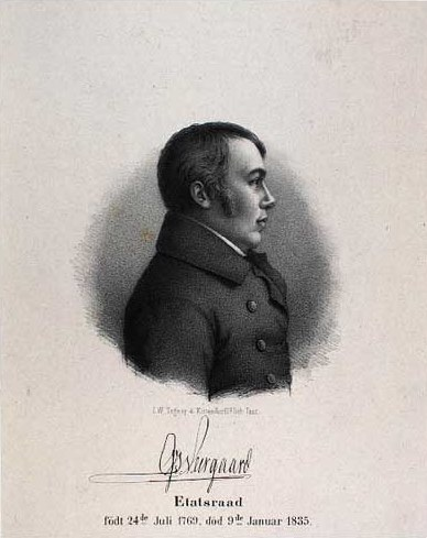 Peter Johansen de Neergaard (1769-1835), Danish jurist and estate owner